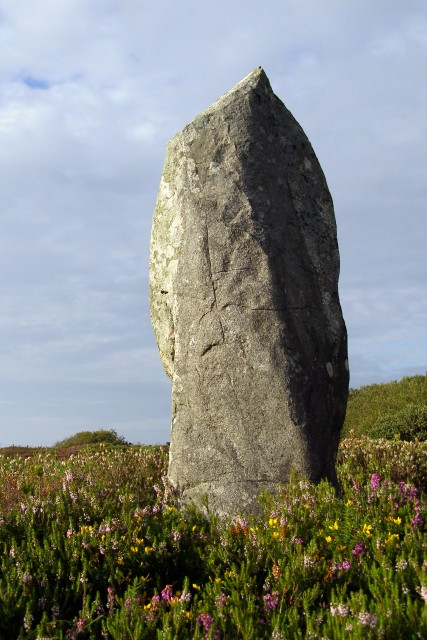 Dry Tree menhir, Goonhilly Downs